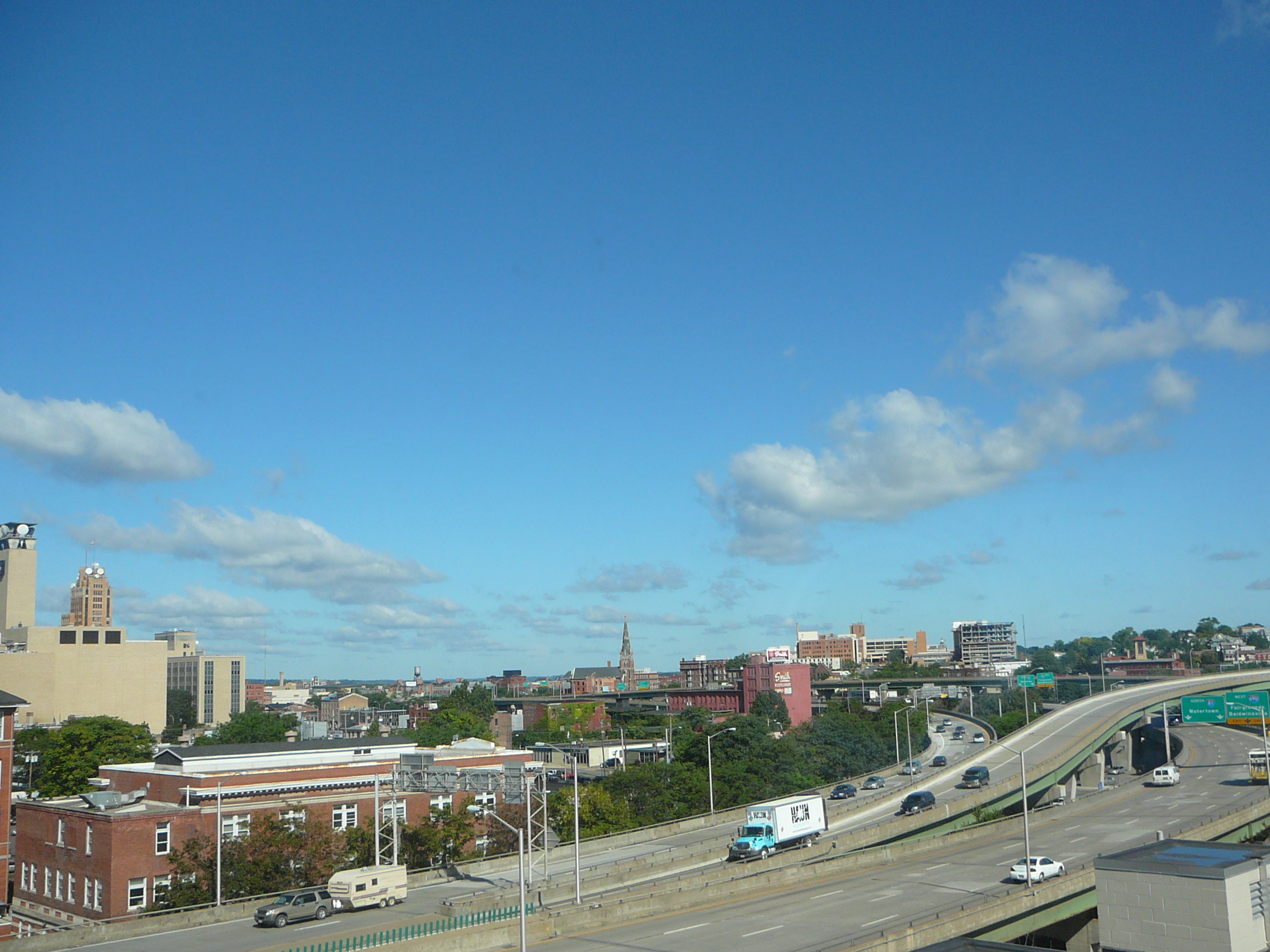 I-81 (foreground) and I-690 interchange in Syracuse, New York